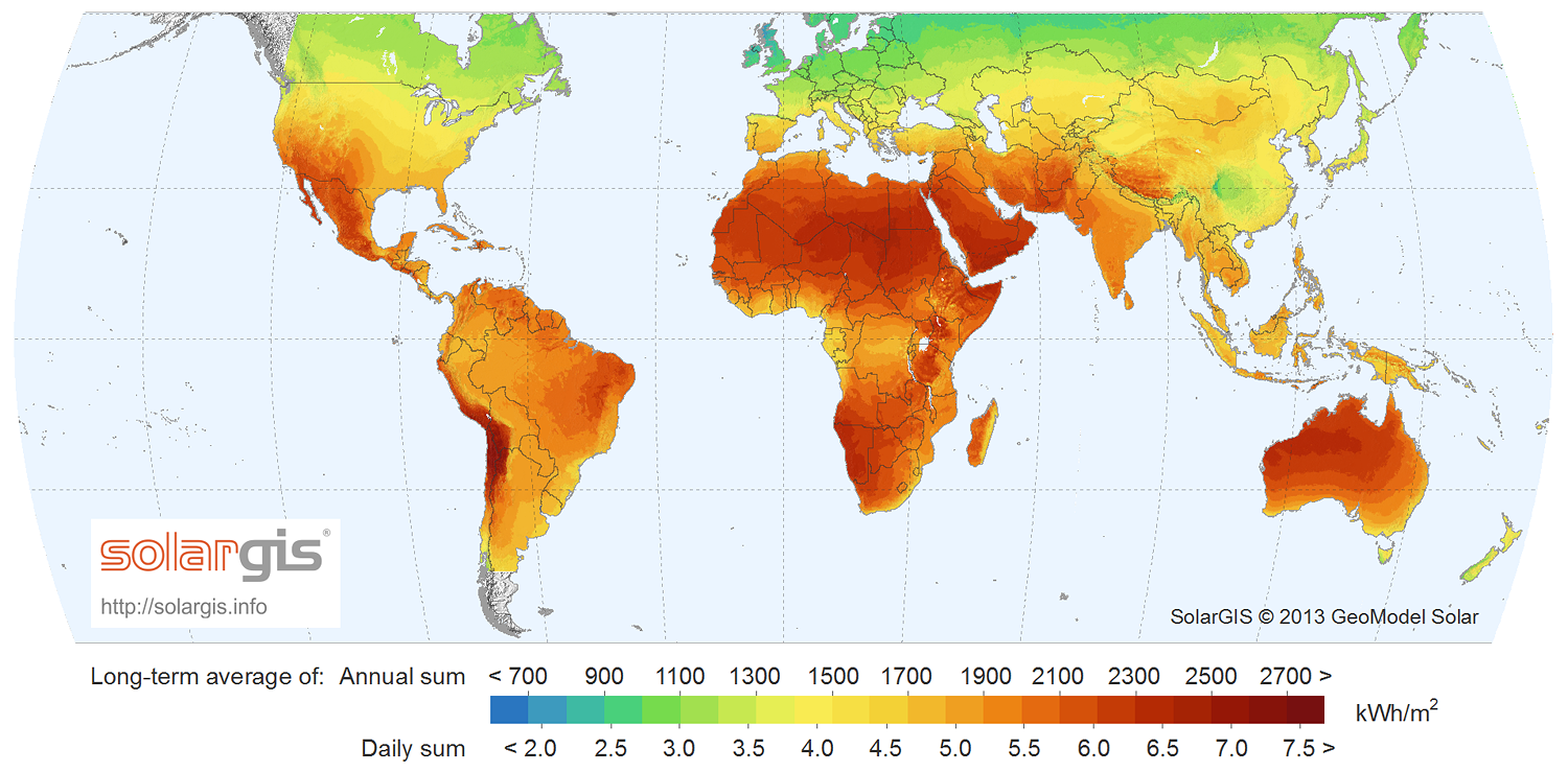 World Map of Global Horizontal Irradiation, SolarGIS 2013